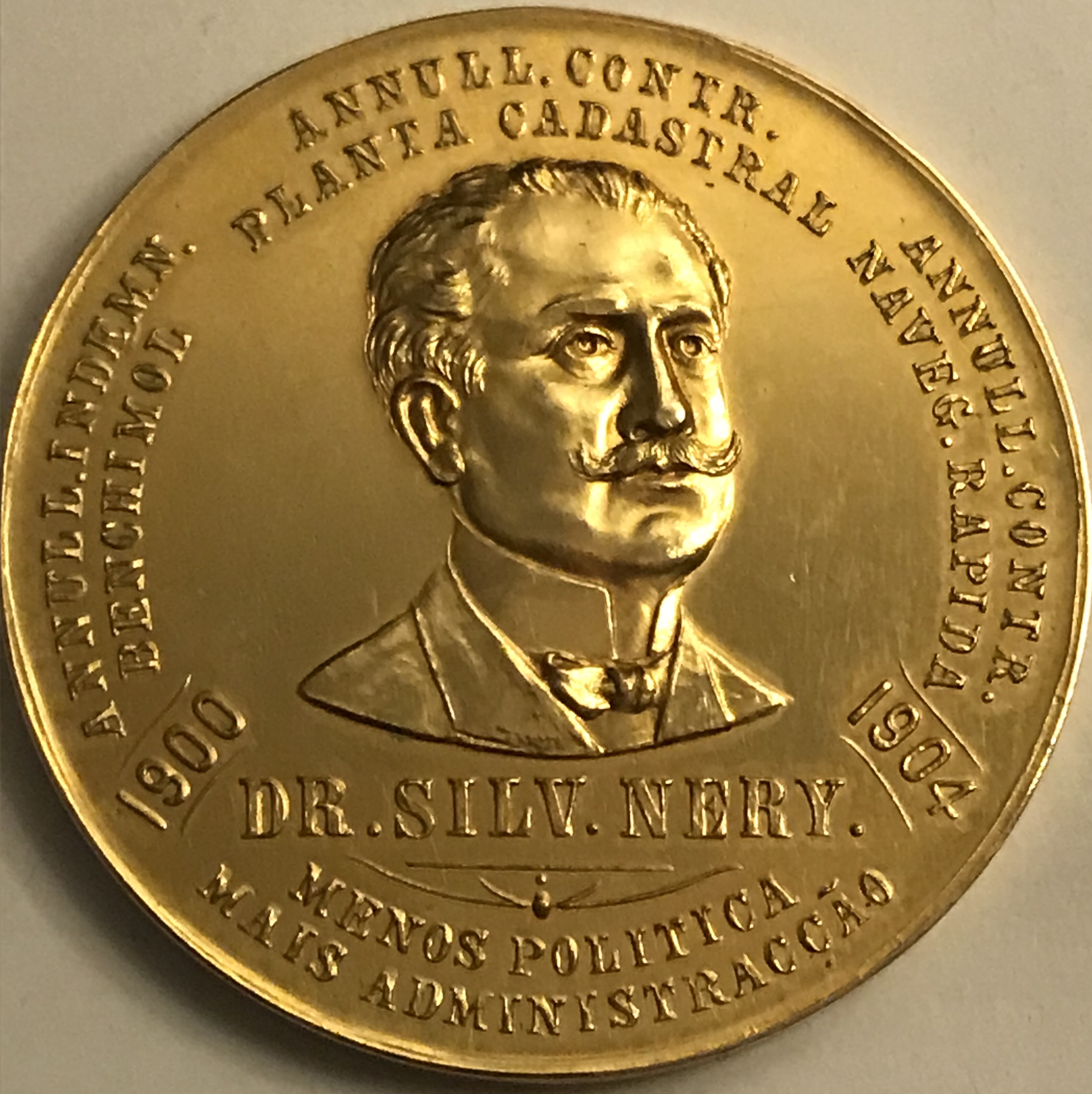 Medal commemorating the governorship of Silverio Nery with his motto "Menos Politica Mais Administraccao" (Less politics more administration)